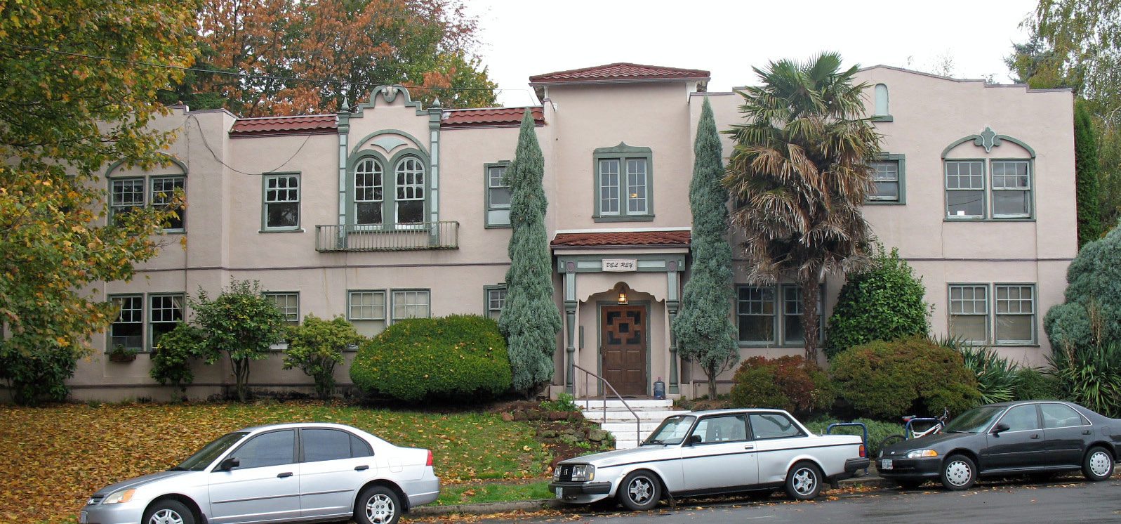 National Register of Historic Places listings in Northeast Portland, Oregon. Del Rey Apartments, 2555 NE Glisan St, Portland, OR. Photographed October 25, 2009 from the southeast corner of NE Glisan St. and NE 26th Ave.